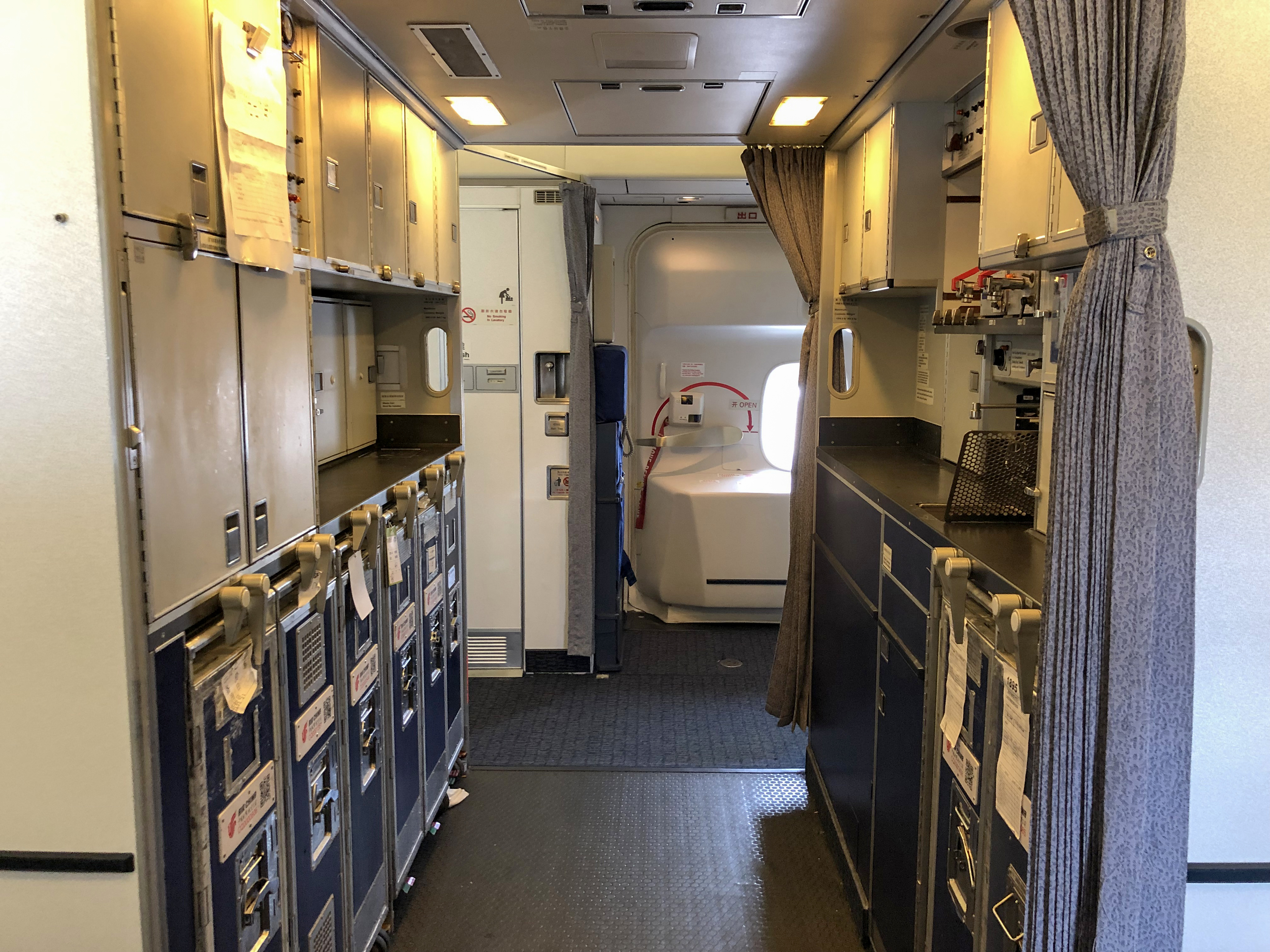 Air China 1896 from Shenzhen to Beijing. This flight offers lunch.